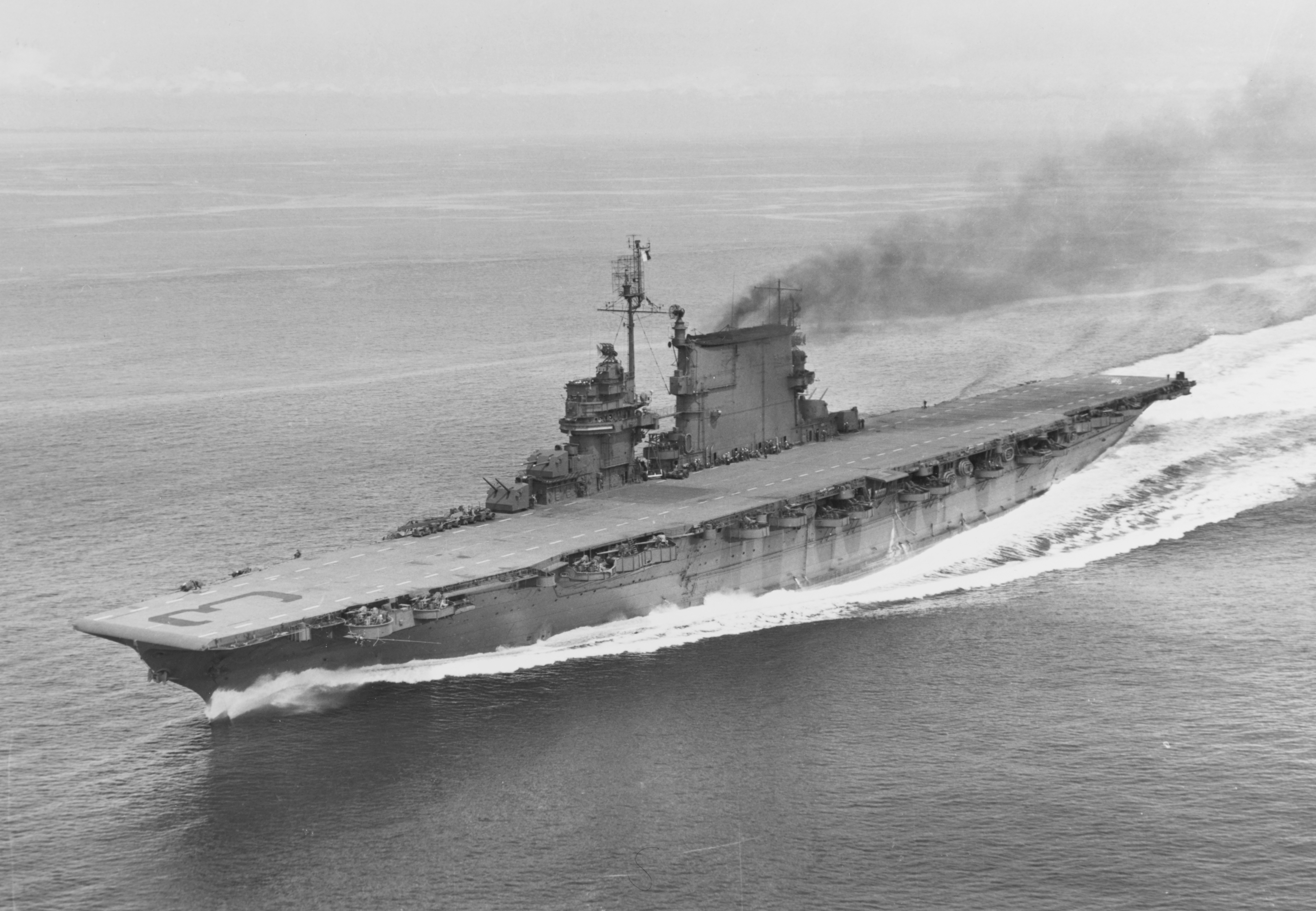 The U.S. Navy aircraft carrier USS Saratoga (CV-3) running full power trials in Puget Sound, Washington (USA), following battle damage repairs, 15 May 1945.